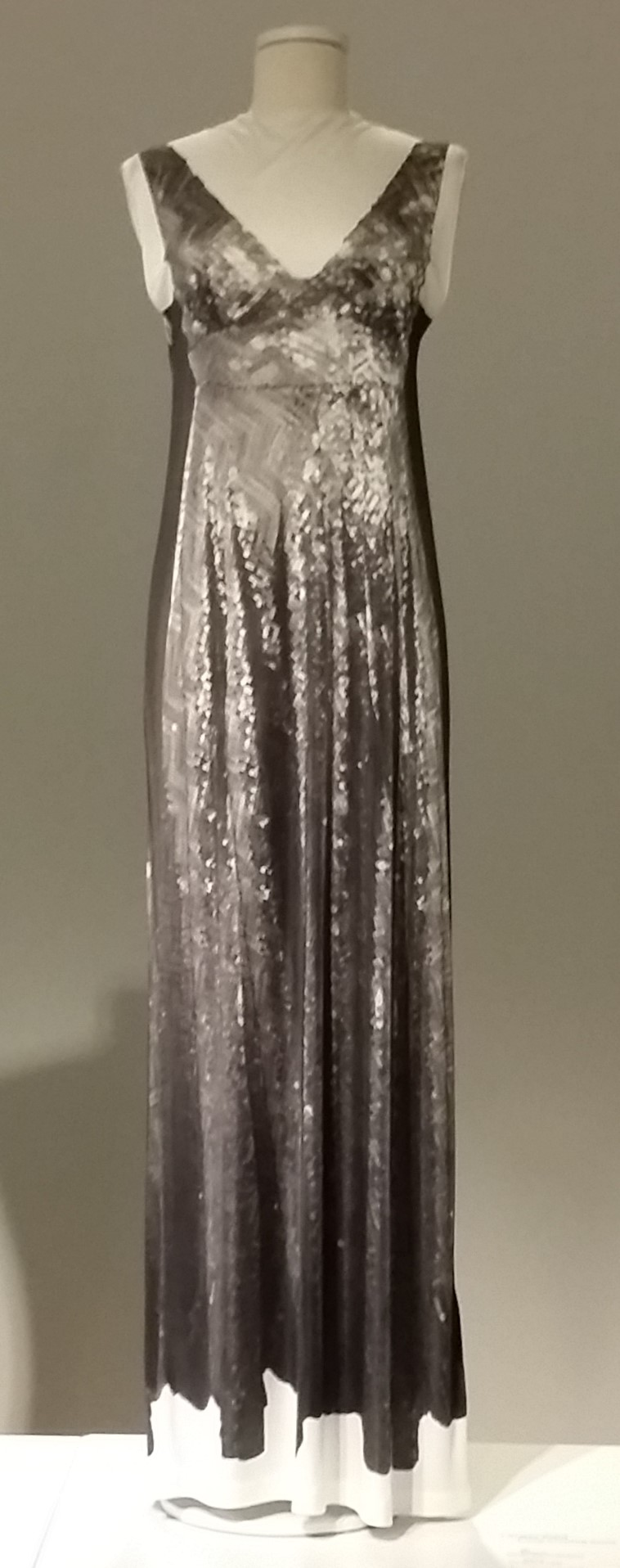 Maison Martin Margiela dress for H&M, 2012. Viscose jersey printed with trompe l'oeil print of a sequinned evening gown.